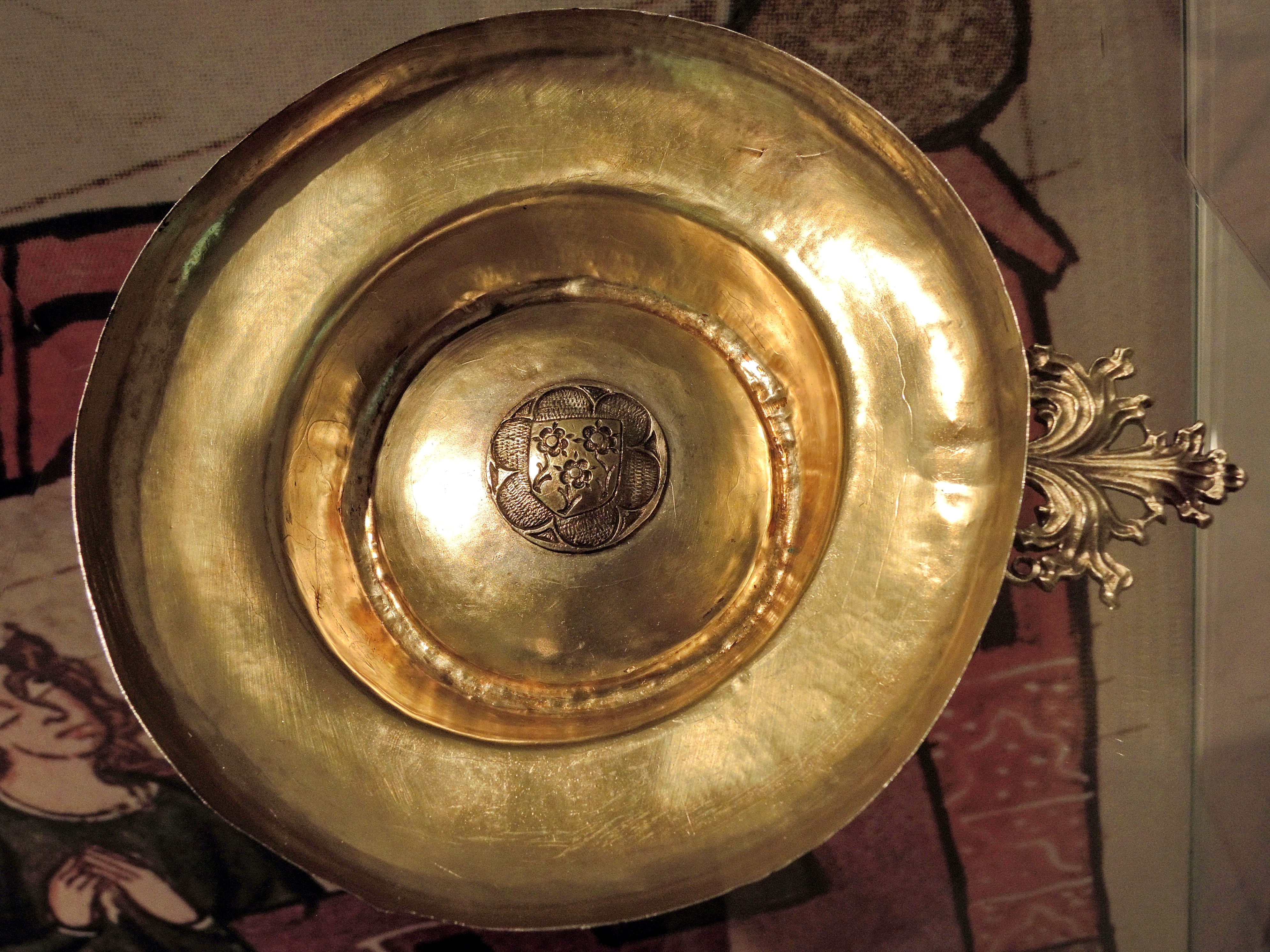 Collection of the Stadtmuseum in Rapperswil (Switzerland): Claimed to be the drinking cup of Countess Elisabeth von Rapperswil of Rapperswil Castle. vormals Ausstellungsobjekt Trinkschale aus Silber, vergoldet, nach 1300. Auf der Bodenrückseite, auf einem angeklebten runden Papier, in einer Schrift des 18. Jh. steht die Notiz: «Trinkgeschier der Gravin Elisabethae von Rappersweyl, so die letzte ihres geschlechts und Rudolphi gravens von Habsburg so Anno 1273 gestorben, gemahlin wahr. Diess Schalerl hat Herr Graf Frantz Ehrenreich von Trautmannsatorff, Kaysers Leopoldi gehaimer Rat und Botschafter in der Schweiz, in dem Benedictiner-Kloster zu Baden gefunden und an sich erhandelt und als eine antiquitet Ihrer Kayln. Maj. verehret Anno 1703.»Die Trinkschale ist im Besitz des Kunsthistorischen Museums Wien, welches der Ortsgemeinde Rapperswil die Bewilligung zur Anfertigung einer originalgetreuen Kopie erteilte.